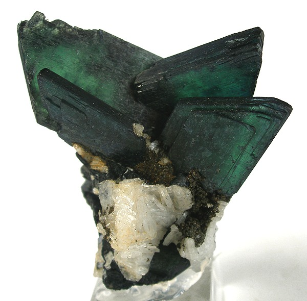 Vivianite, Albite (Var.: Cleavelandite) Locality: Cigana claim (Jocão claim), Galiléia, Doce valley, Minas Gerais, Southeast Region, Brazil (Locality at ) Size: 5.0 x 4.0 x 2.9 cm. Vivianite is a rare species from Brazil, and large vivianite crystals of this quality have been found, to my knowledge, only recently at this mine (in the last 2-3 years). This is a superb miniature from the finds, with sharp, translucent crystals and, unusually, some cleavelandite matrix. This proves that this is a pegmatitic vivianite, which is extremely uncommon worldwide. Normally this species forms in phosphate pods, or in phosphate quarries often related to fossilized material there, but seldom in gem pegmatite environments. Complete-all-around, this is a very elegant specimen from the find.